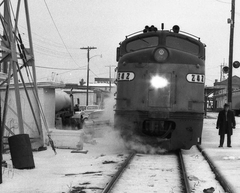 Amtrak Vacationer at Gervais Street station in Columbia, South Carolina, December 1972